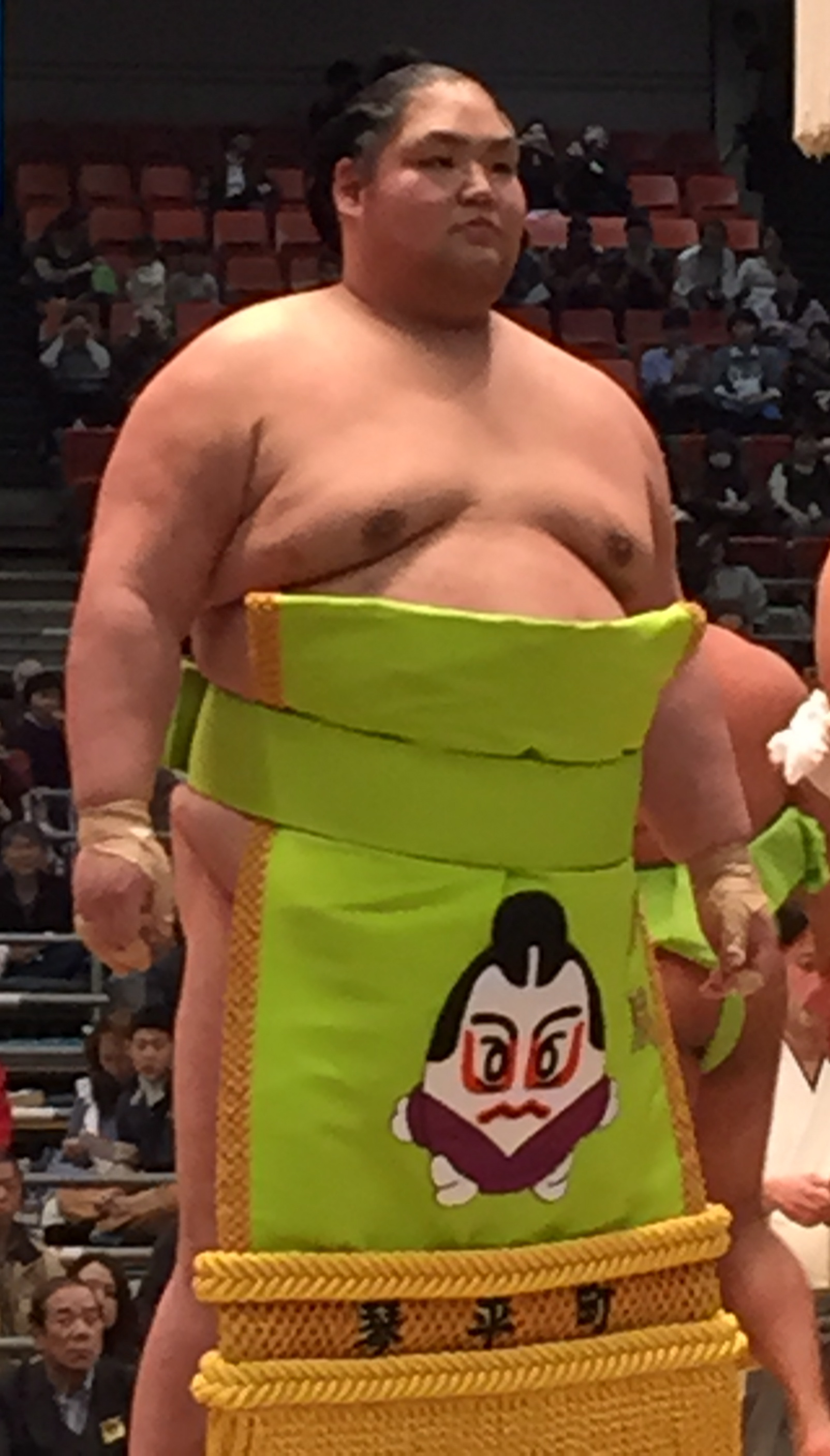 Taken at Osaka tournament 2015